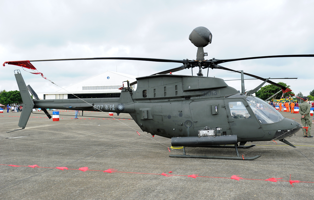 Republic of China Army Bell OH-58D.